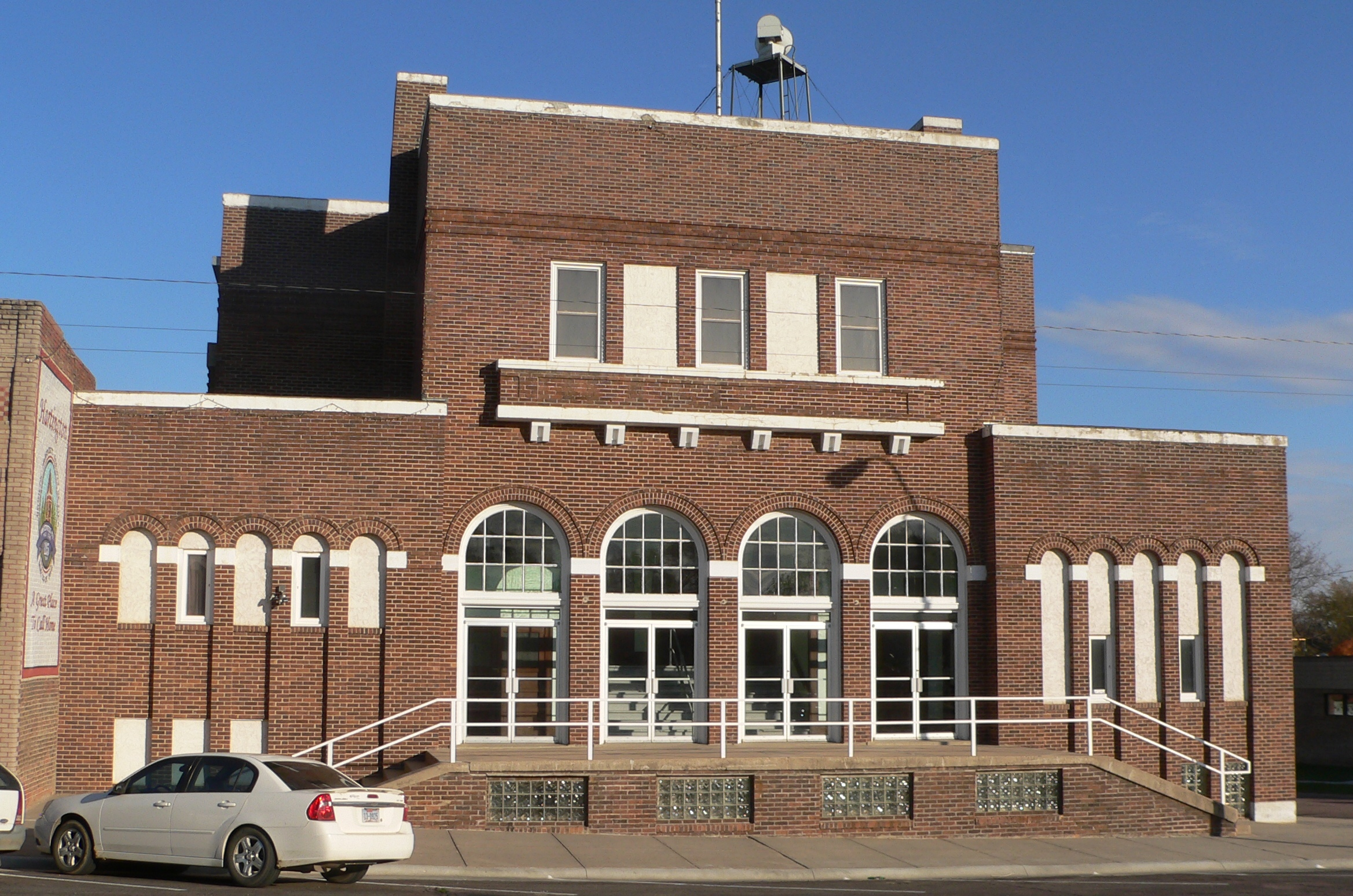 City auditorium, former city hall, in Hartington, Nebraska; seen from the west.